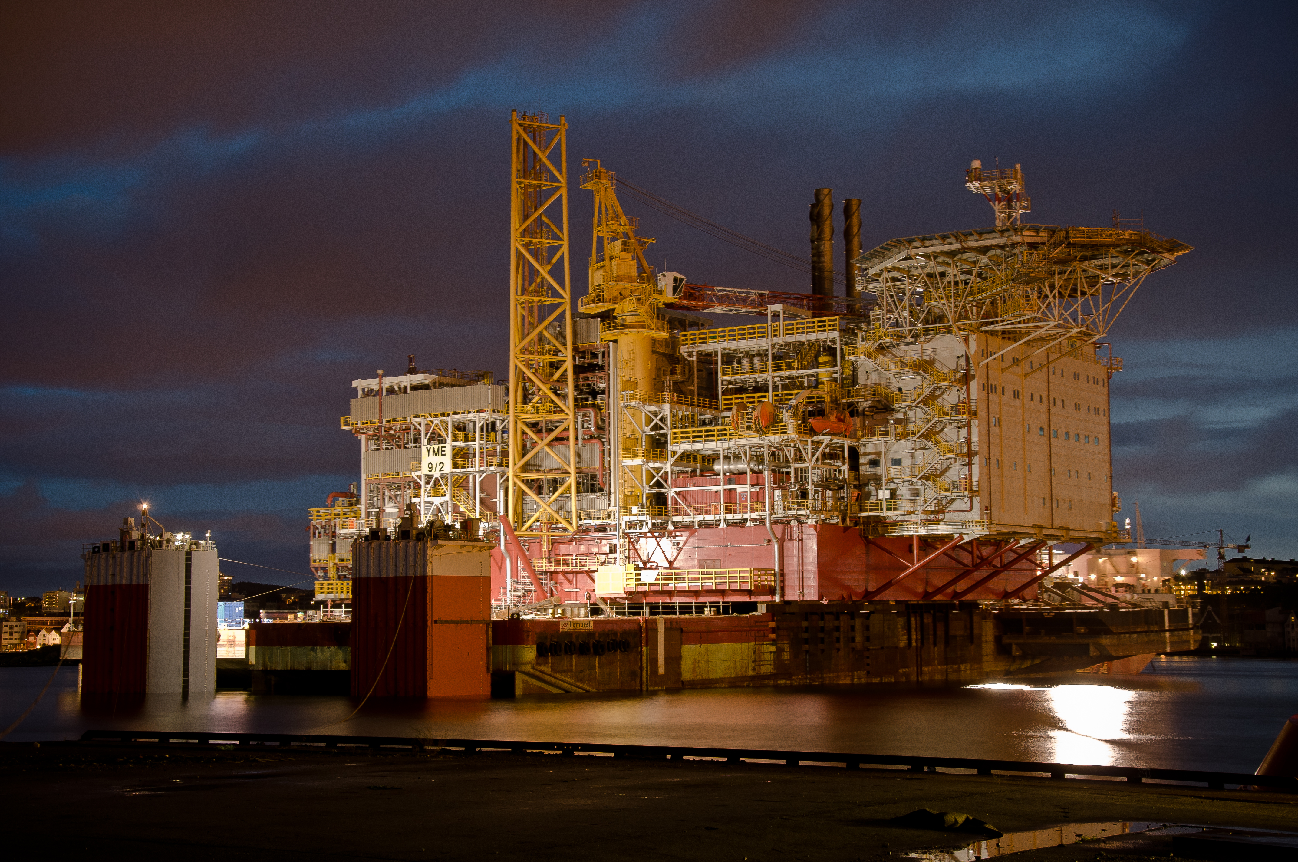 The ship Mighty Servant 1 is unloading the new jack-up platform, Yme, at Buøy outside Stavanger, Norway. Having completed the long journey from Abu Dhabi the 190 meters long vessel is now submerging itself, allowing the platform to be towed off the deck and placed at Bergen Group Rosenberg yard. There the platform will be fitted with its three circular legs, lifeboat ramps and flare stack. Used@ 1 YME - Norisol